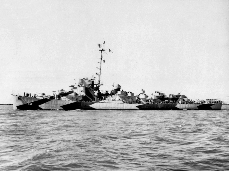 The U.S. Navy destroyer escort of USS Finnegan (DE-307) off the Mare Island Naval Shipyard, California (USA), on 24 September 1944.